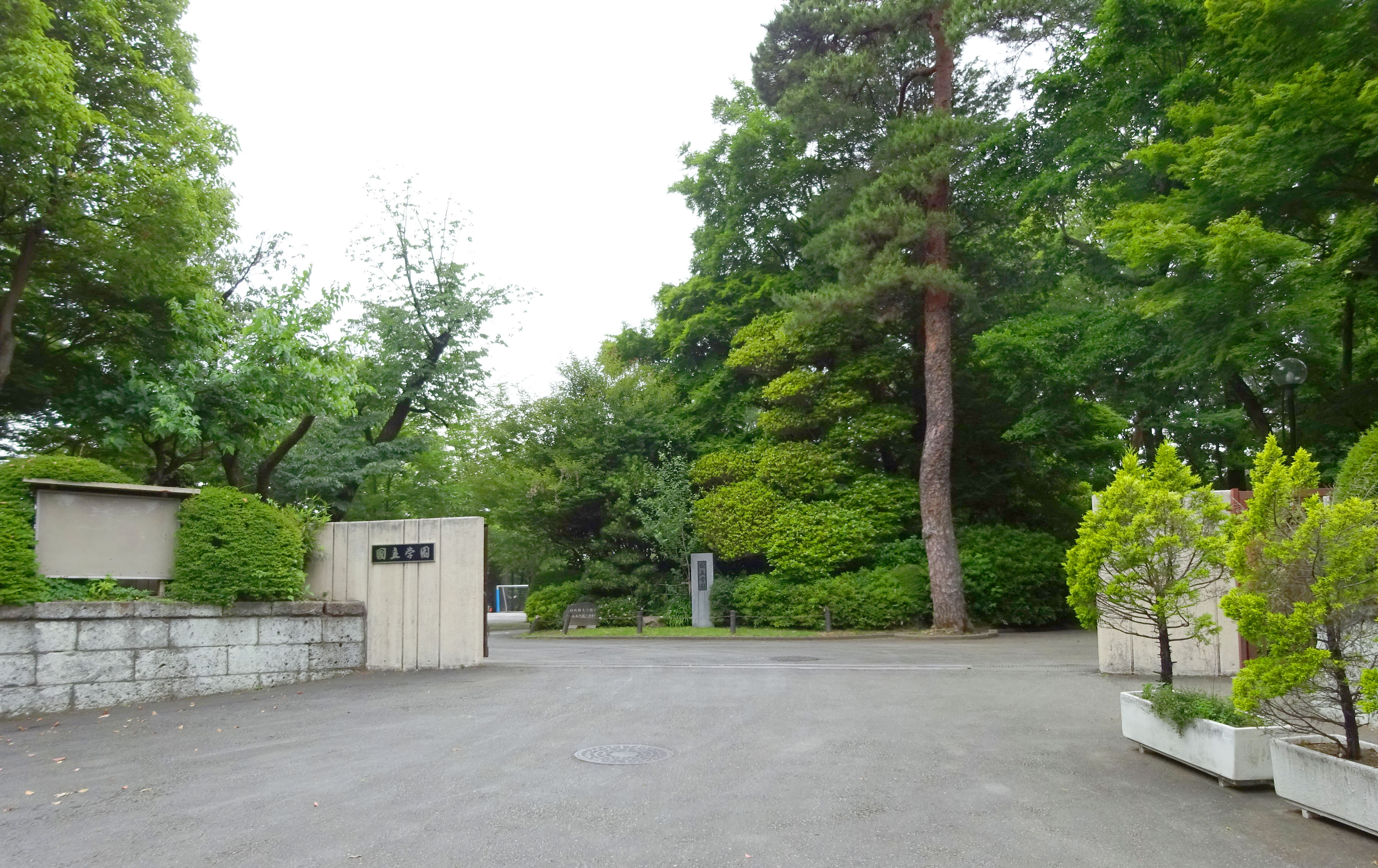 Kunitachi Gakuen